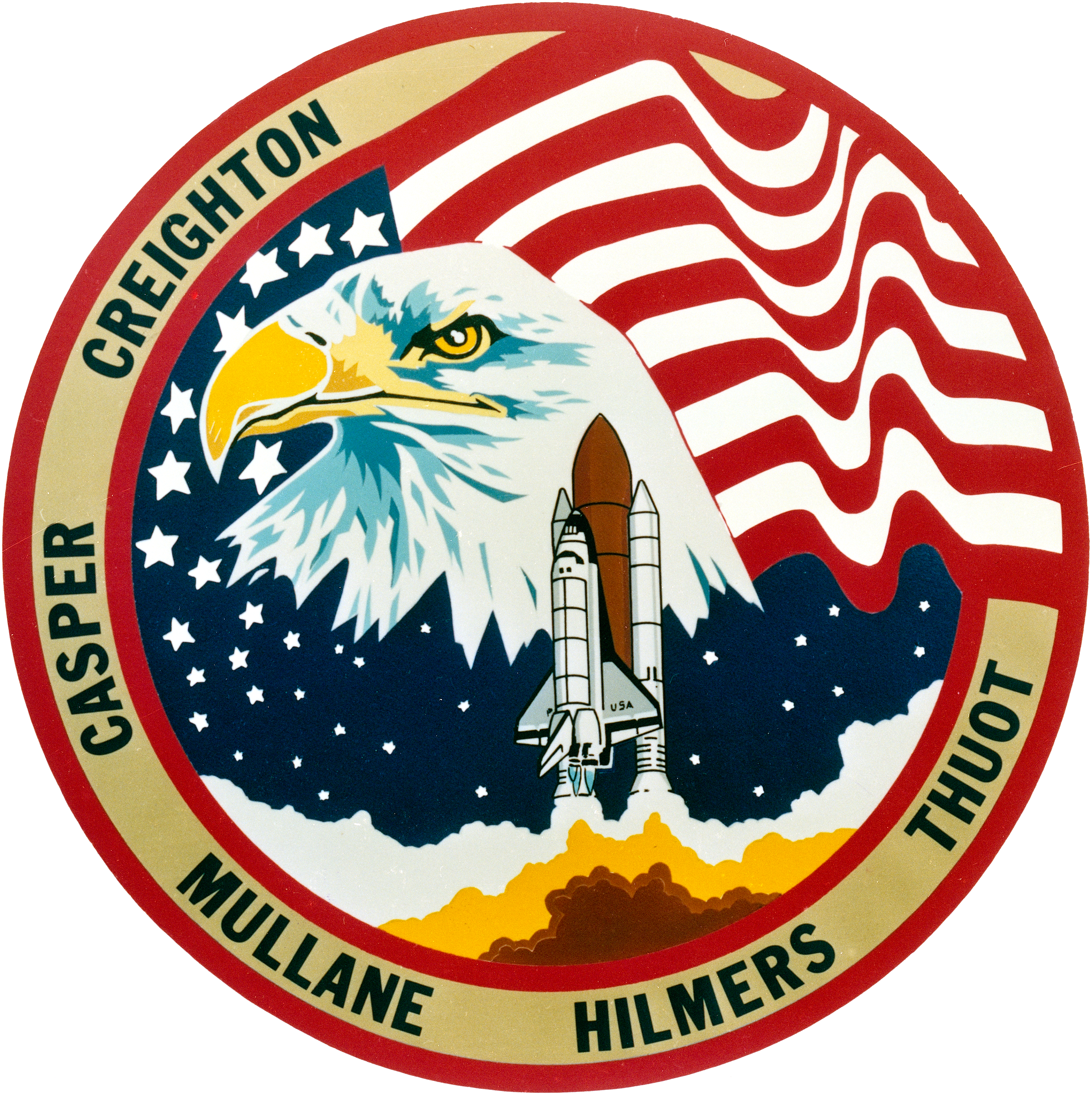 STS-36 Mission Insignia Description: The dominant theme of the STS-36, designed by the five astronaut crewmembers, is, in their words ...the essential role that space plays in preserving the blessings of freedom and liberty for America. The crew used the eagle to symbolize our country's commitment to strength and vigilance; its domain is not bound by the limits of Earth but reaches out to the star. The Shuttle, they express majestically beginning its journey into orbit demonstrates how man and machine work together for the security of our nation. A crew spokesman went on to say the flag represents the patriotism and love for America possessed by each member of the five-man crew and signifies the honor accorded them through participation in national defense.